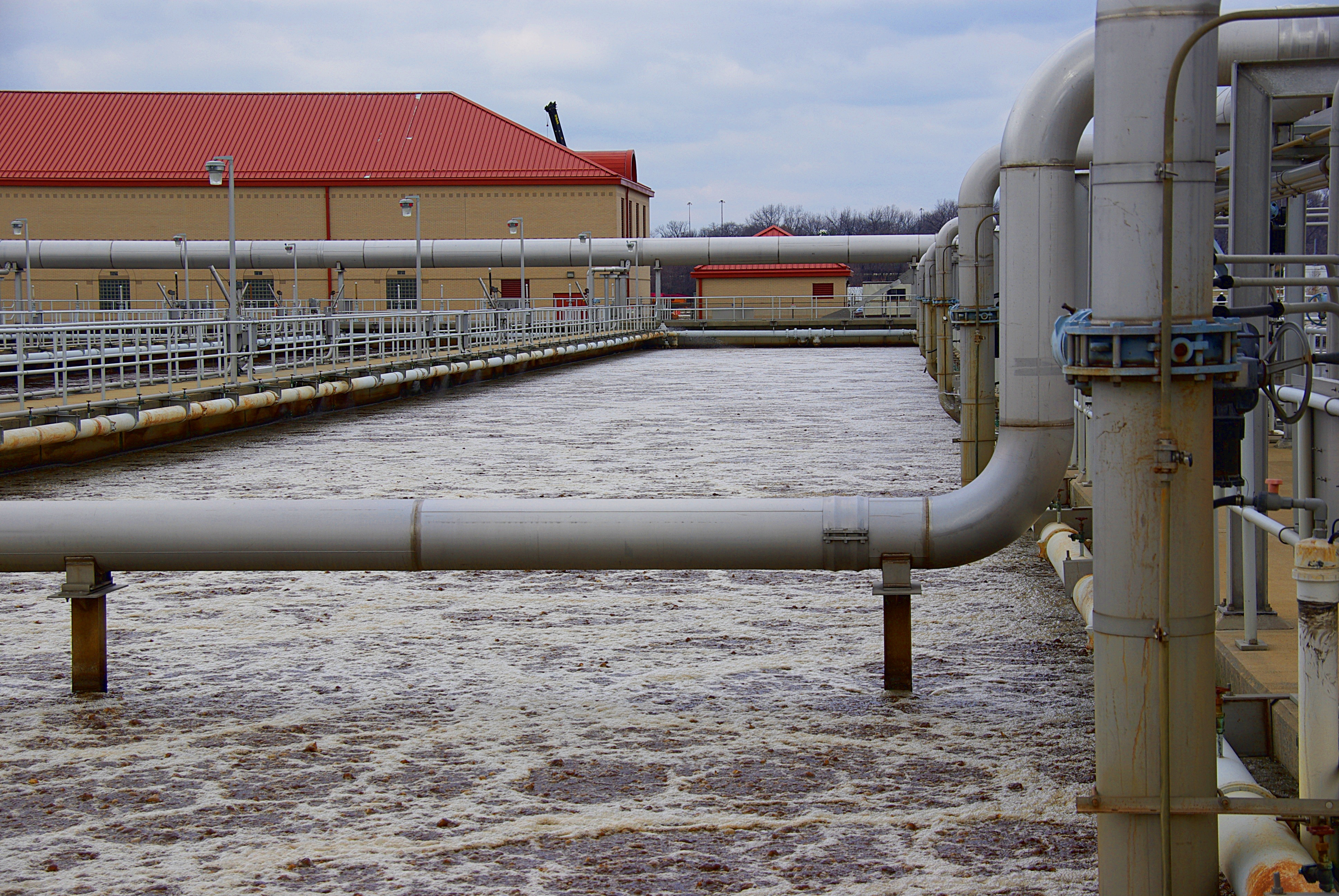 Wastewater bubbling in treatment plant. Colors adjusted with Gimp.